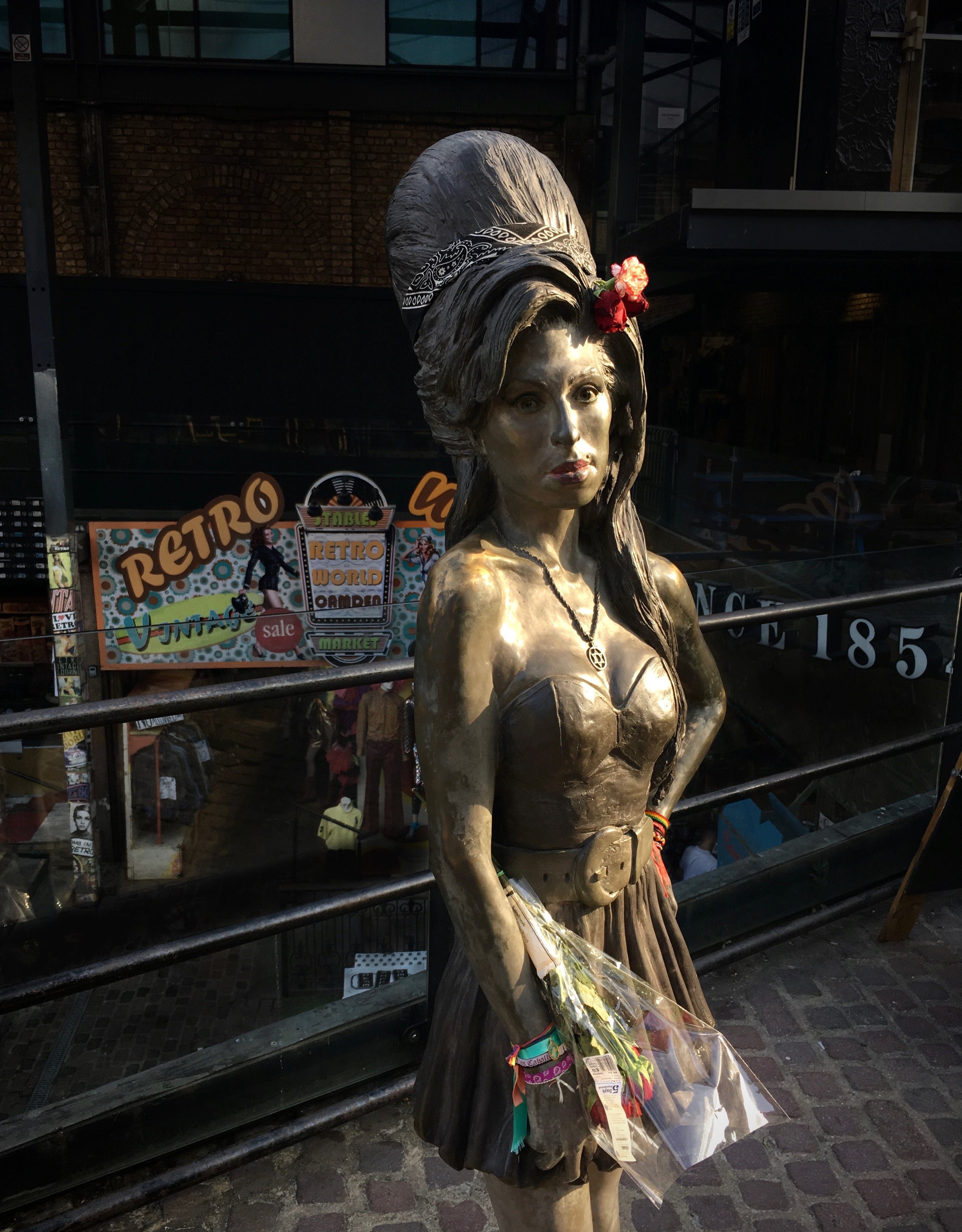 Statue of Amy Winehouse in Camden Town (London), taken in the evening as the sun begins to set.